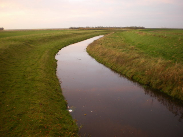 Broad Fleet Looking north from Broadfleet Bridge